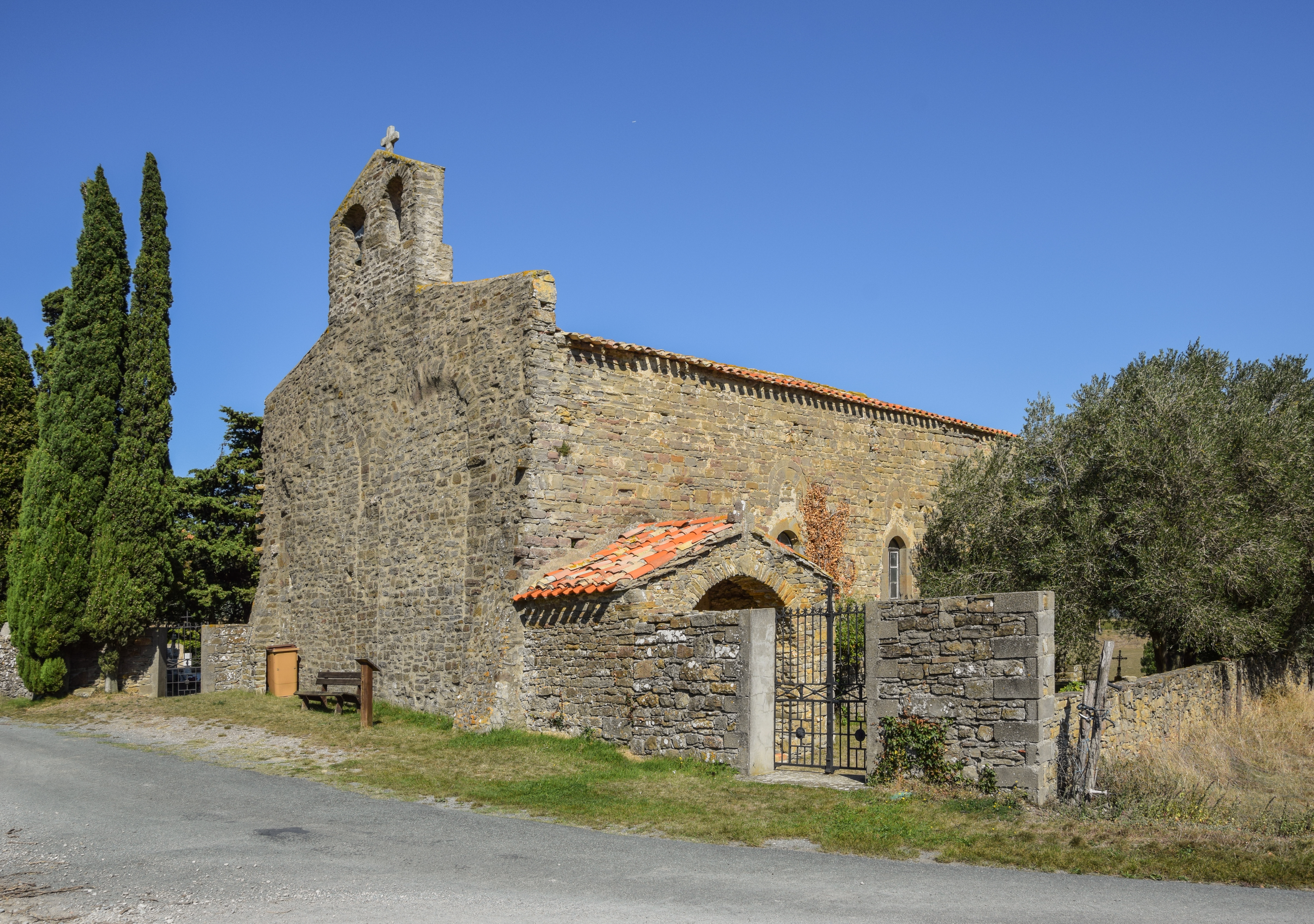 Saint Paul church of Villar-en-Val, Aude, France